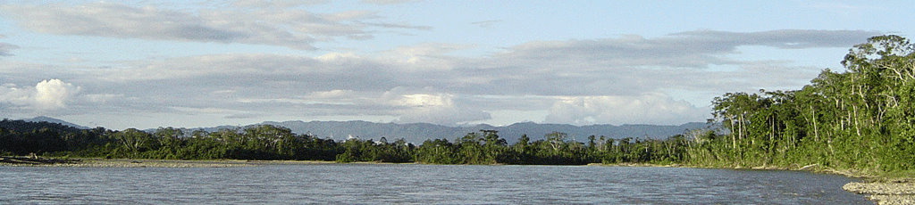 Alto Madre de Dios Scene